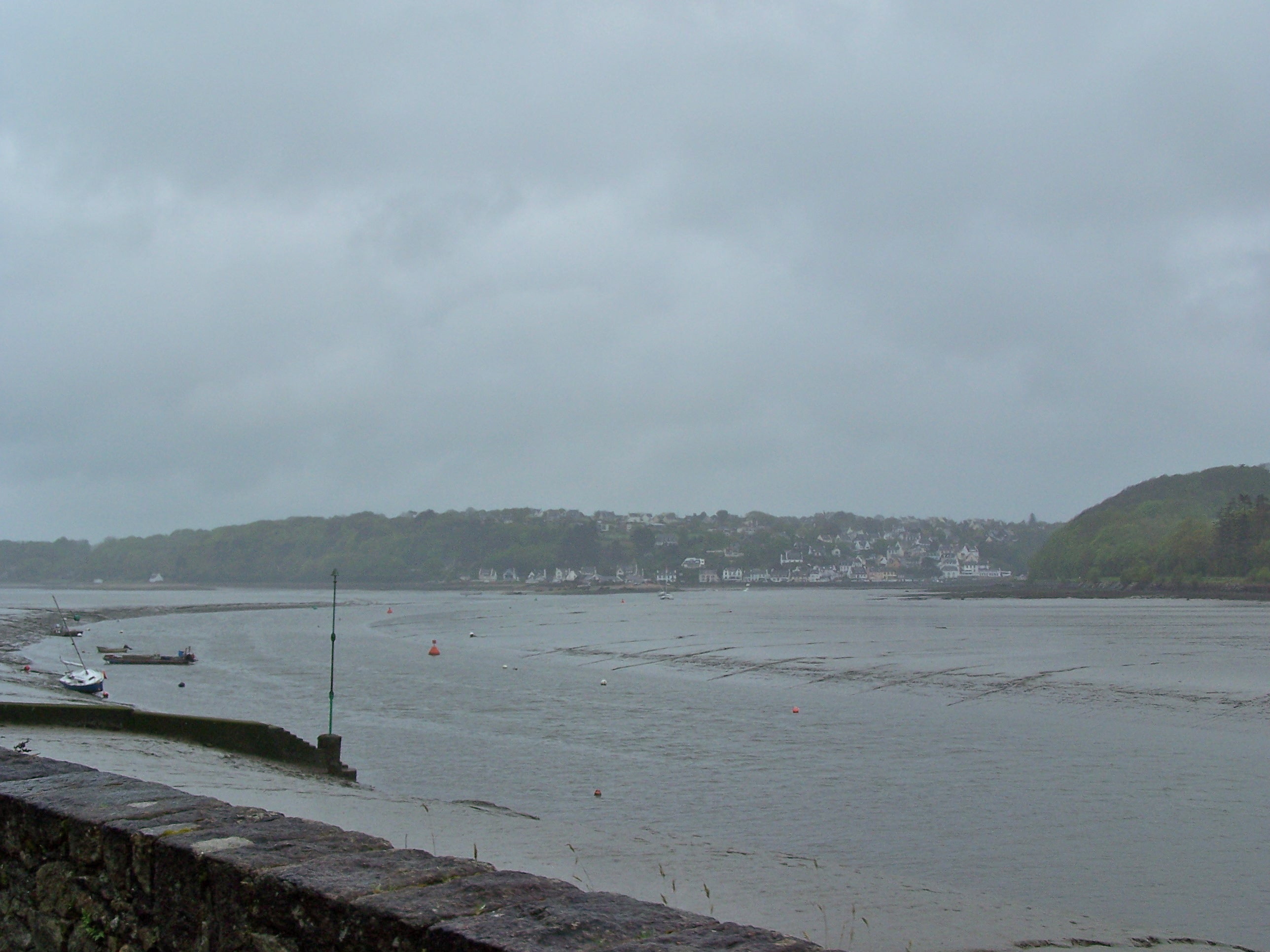 Confluence du Dourduff et de la rivière de Morlaix au niveau du Dourduff-en-Mer